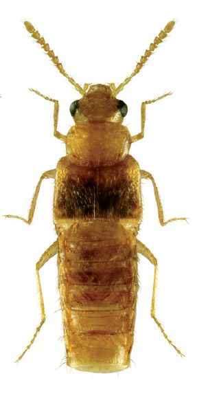 Dorsal view of Gyrophaena (G.) chippewa (apical part of abdomen removed).